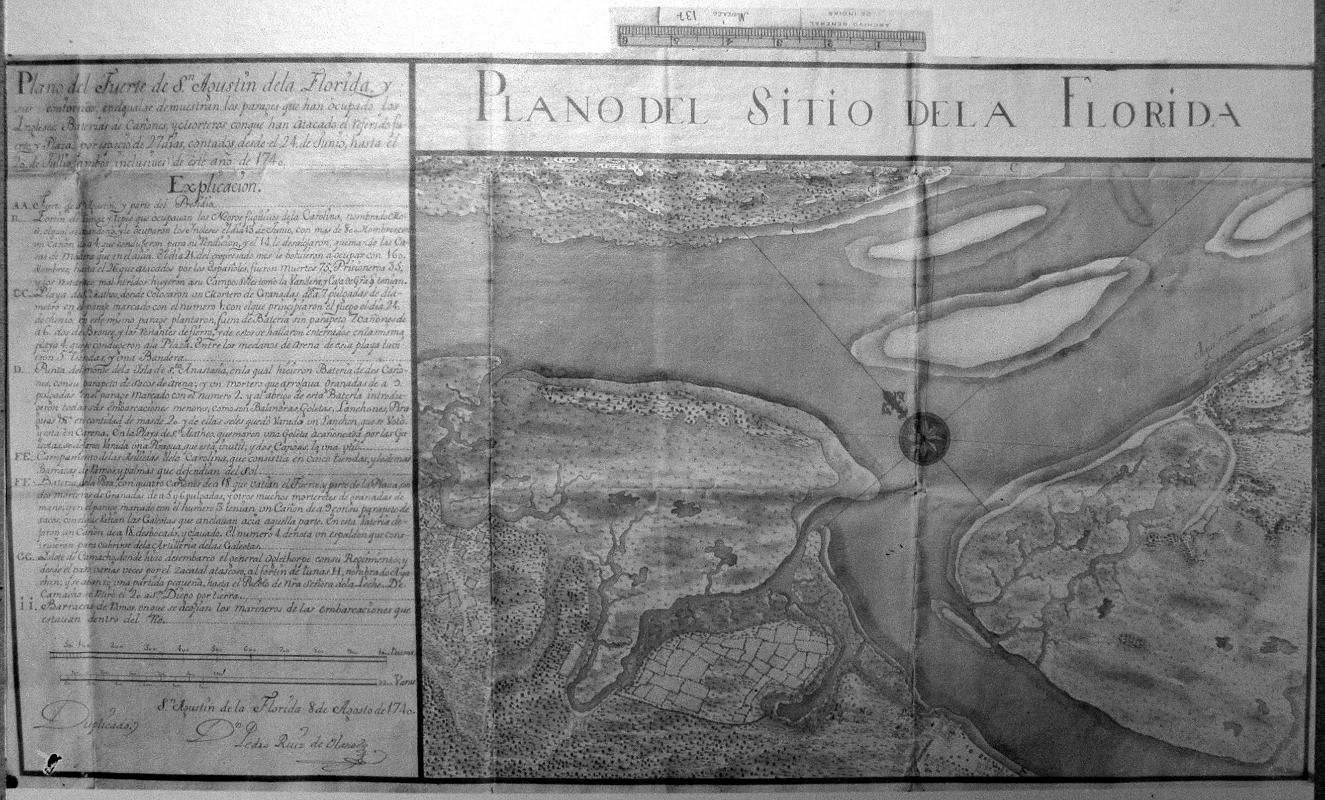 Plan of the fort of Saint Augustine, Florida and its contours: in which are shown the places occupied by the English, Batteries of cannons and mortars with which they have attacked the referred fort and square for 27 days, counted from June 24 to July 20 (both inclusive) of this year of 1740. Saint Augustine, Florida August 8, 1740.